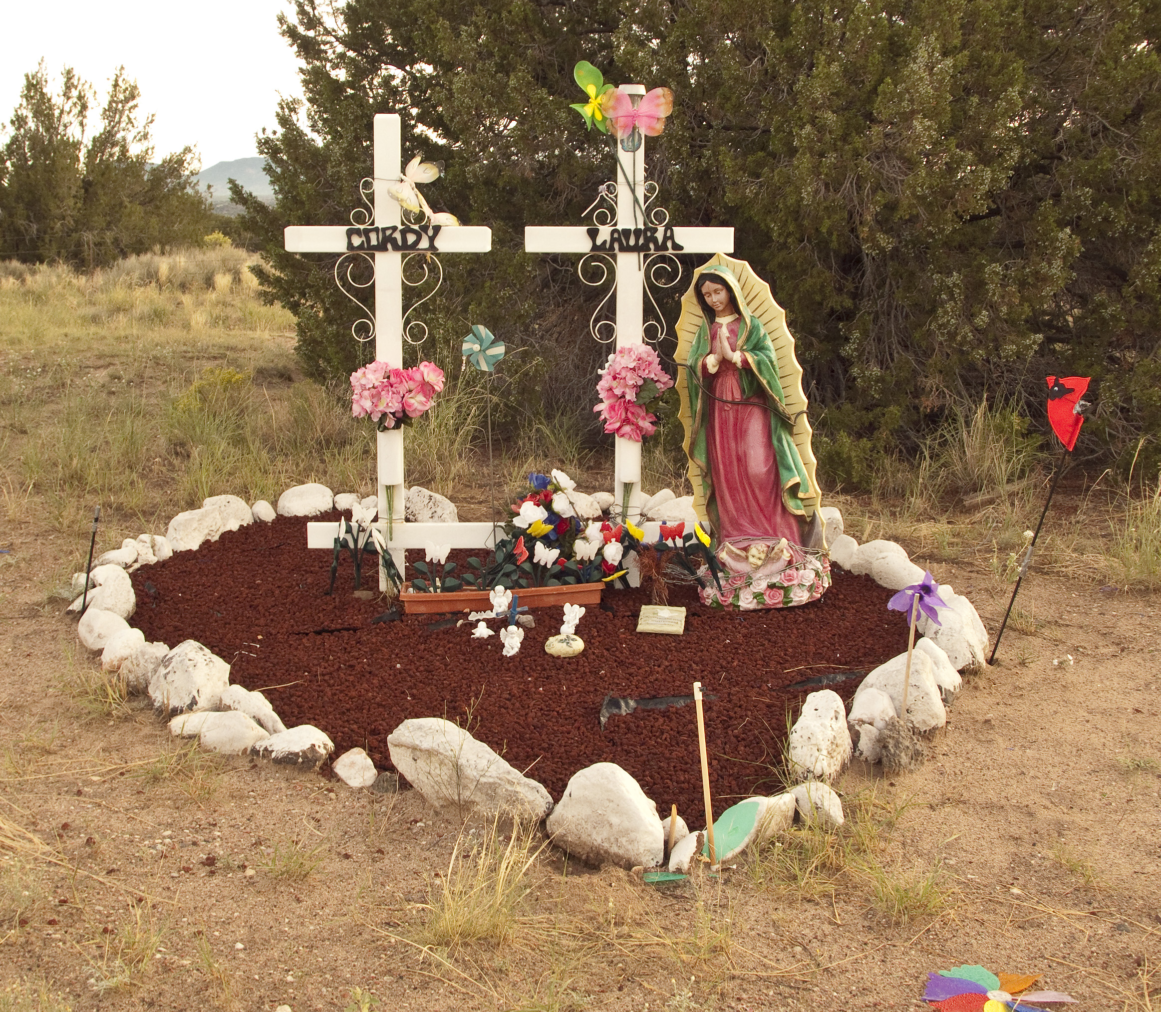 Around mile marker 13 on US 550 west out of Bernalillo, NM. You see these all over the place but this is one of the nicer ones.